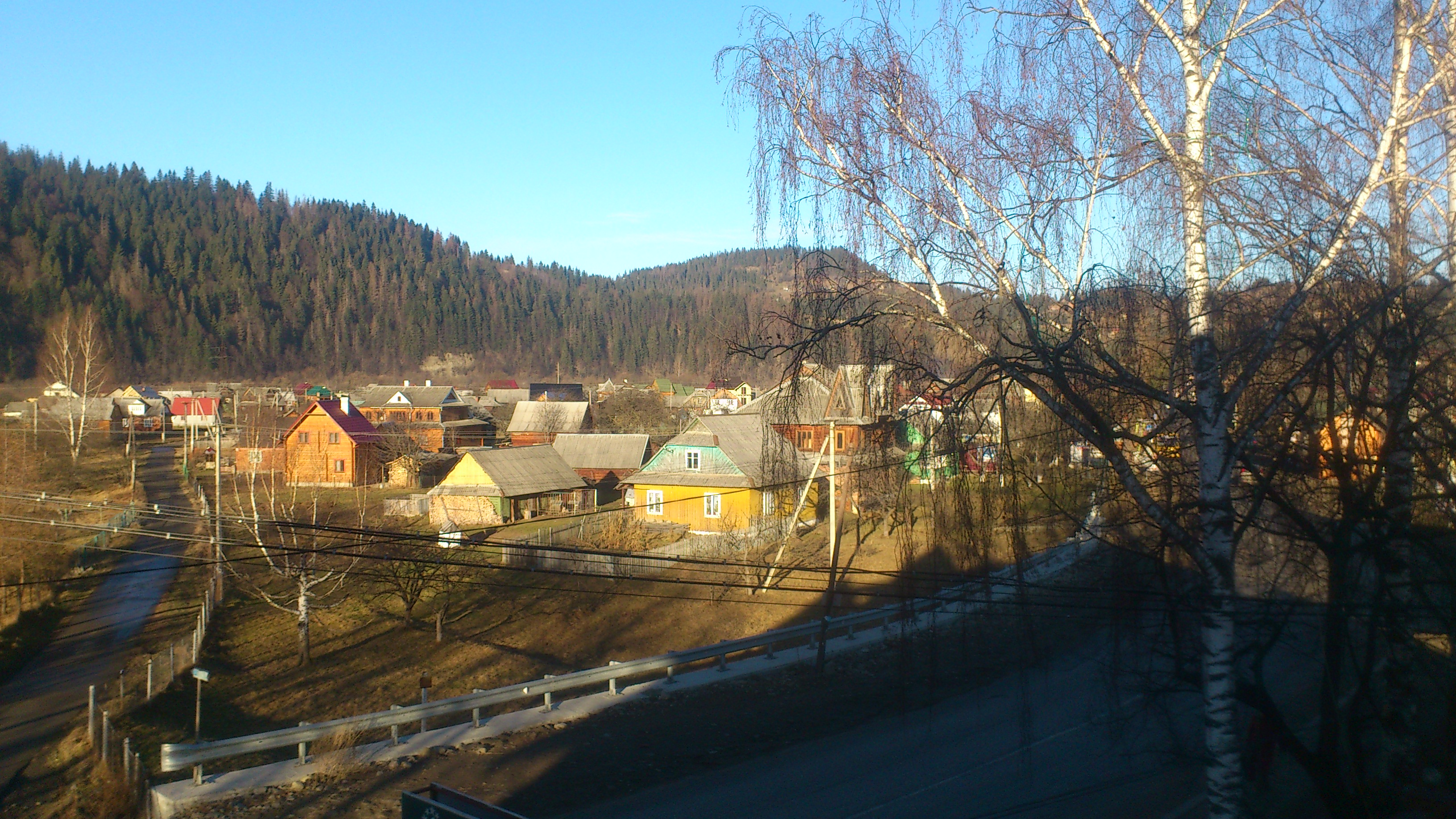 Mykulychyn, January 2014